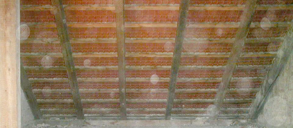 Orbs in an attic.